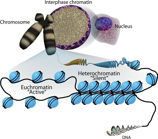 The basic unit of chromatin organization is the nucleosome, which comprises 147 bp of DNA wrapped around a core of histone proteins. Nucleosomes can be organized into higher order structures and the level of packaging can have profound consequences on all DNA-mediated processes including gene regulation. Euchromatin is associated with an open chromatin conformation and this structure is permissible for transcription whereas heterochromatin is more compact and refractory to factors that need to gain access to the DNA template. Nucleosome positioning and chromatin compaction can be influenced by a wide-range of processes including modification to both histones and DNA.